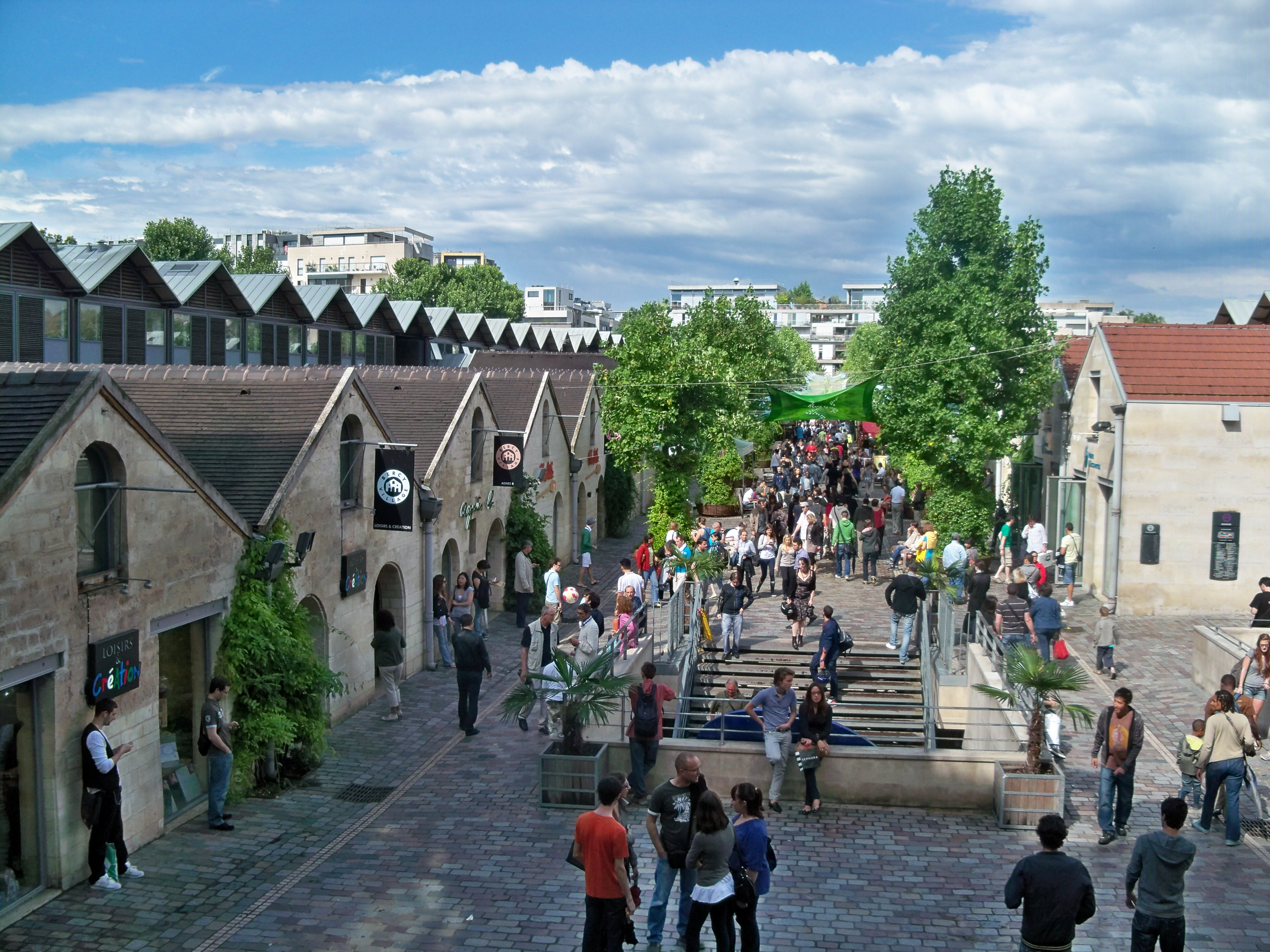 Old Wine market of Bercy, Paris